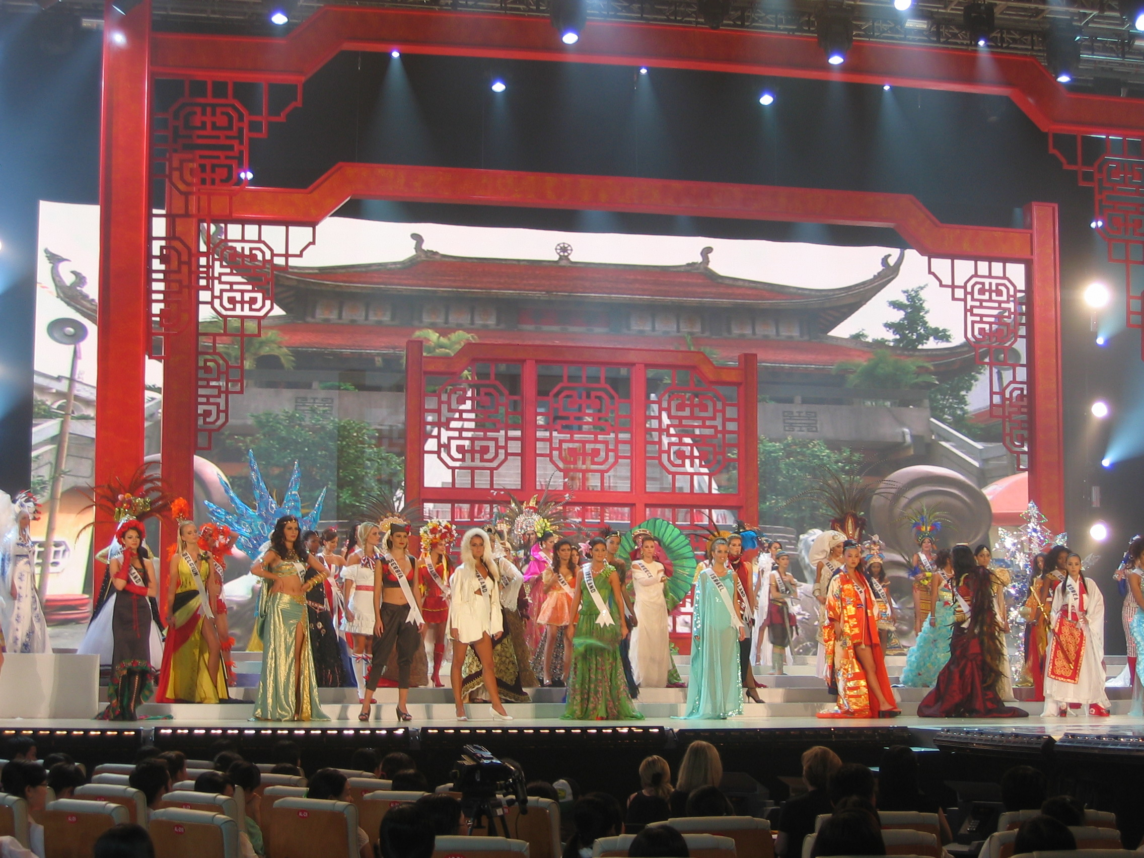 Miss Universe 2008 - National Costume